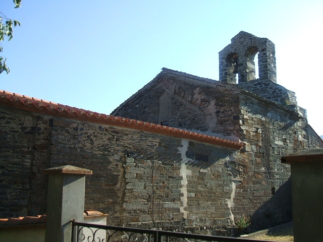 Casefabre : Saint-Martin church (Xth-XIVth centuries).